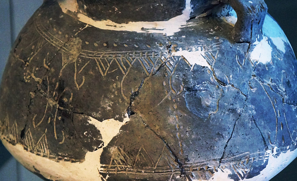 Bronze Age cabinet 04, museum Zrenjanin: Urn from locality Mali Akač, Banat, period of the Encrusted Pottery (Culture of the Encrusted Ceramics of the Lower Danube) Српски (ћирилица): Урна - гроб са кремацијом, локалитет Мали Акач, Ново Милошево (позно бронзано доба, култура инкрустоване керамике)